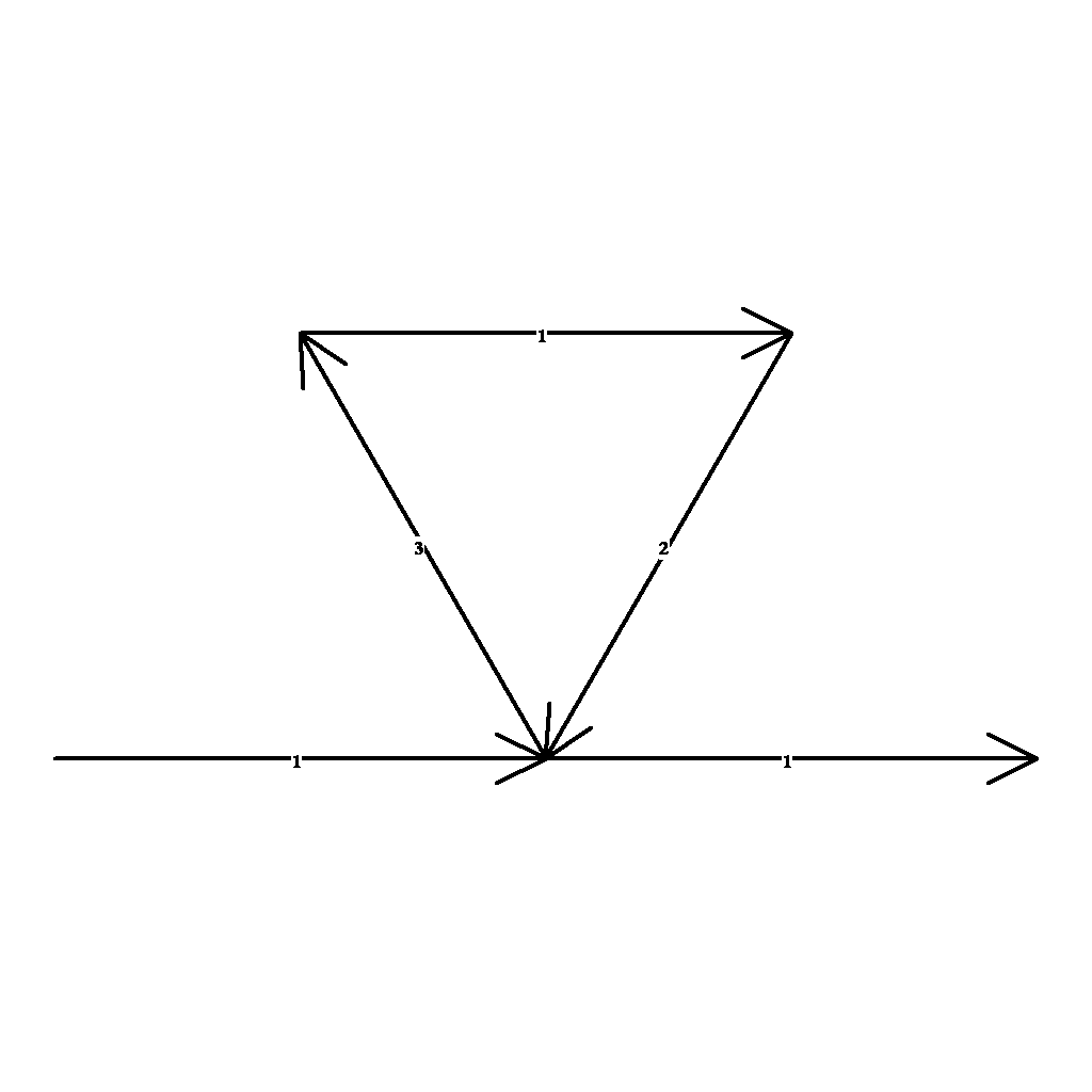 S3 Sierpinski L1 1st